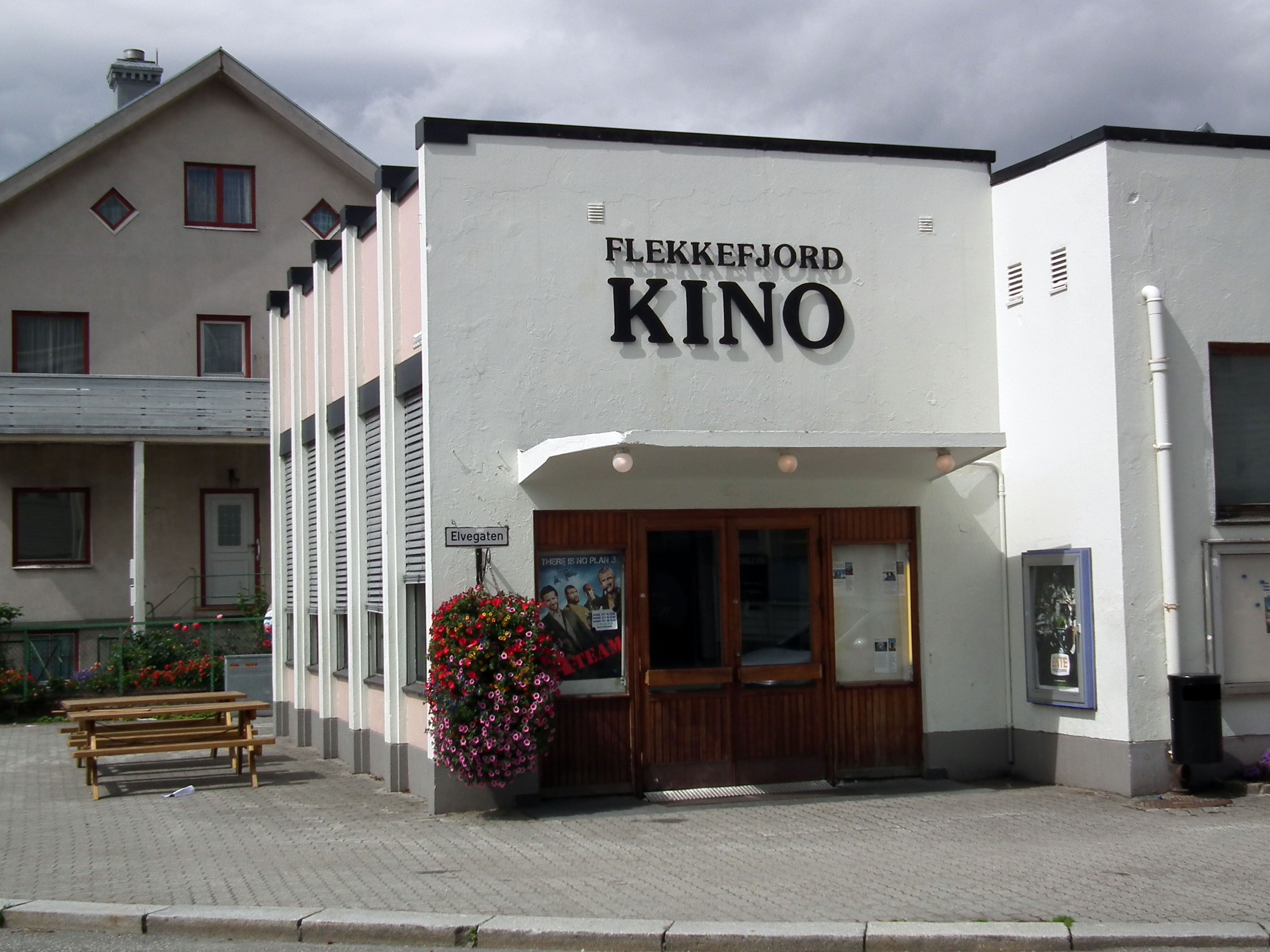 The cinema in Flekkefjord, 2010